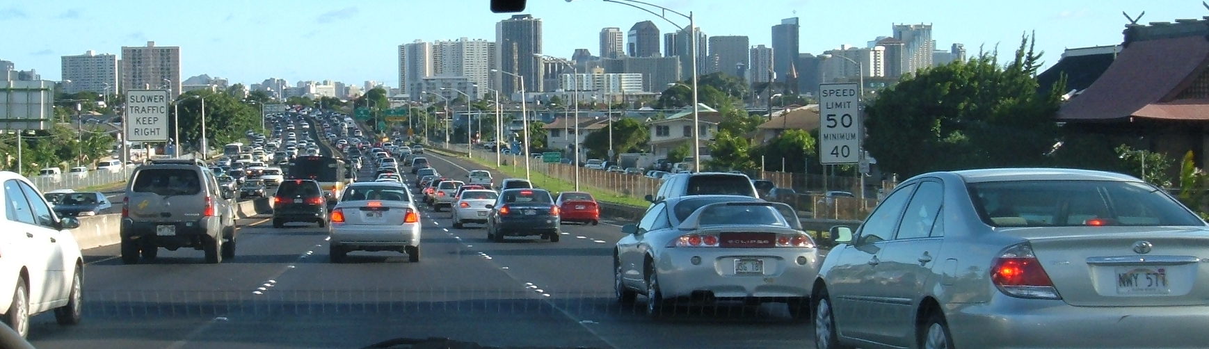 A view of Interstate H-1, eastbound, previous to the Waikiki exits. From previous untagged license